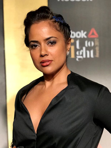 Sameera Reddy attends Reebok Fit to Fight event